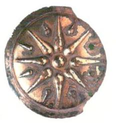 Ancient Macedonian shield decorated with the royal symbol of the Vergina Sun; it was found at Bonche in the Republic of Macedonia.